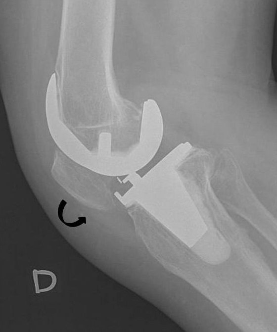 X-ray of a knee with knee replacement and a patella baja.